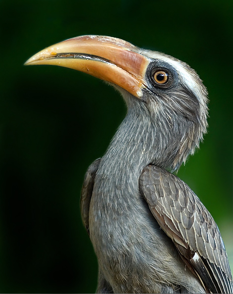 Malabar Grey Hornbill (Ocyceros griseus), a Western Ghat endemic bird. Taken at Thattekad, Kerala. One of the beautiful Hornbill with lovely eye liner..Malabar Grey Hornbill